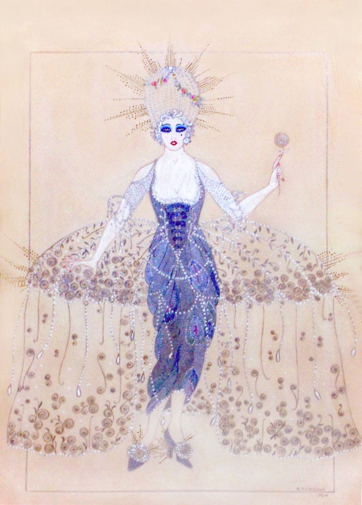 Natacha Rambova's costume design for Forbidden Fruit